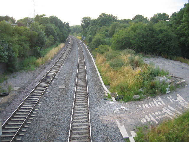 Site of Southam Road and Harbury Station